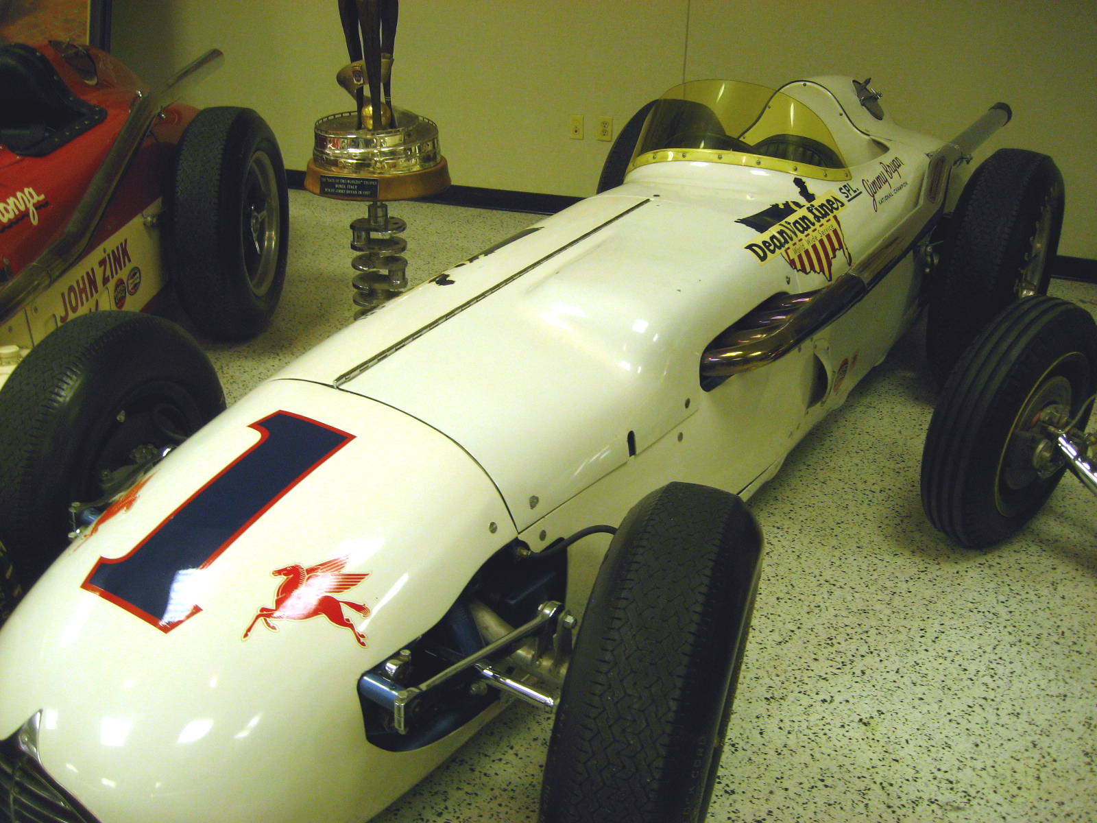 Jimmy Bryan's Dean Van Lines Special, a Kuzma-Offenhauser, on display at the Indianapolis Motor Speedway Hall of Fame Museum